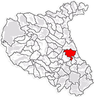 Limits of commune within Vrancea County